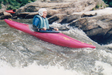 Bill Masters in a Perception Kayak on the Chattooga River